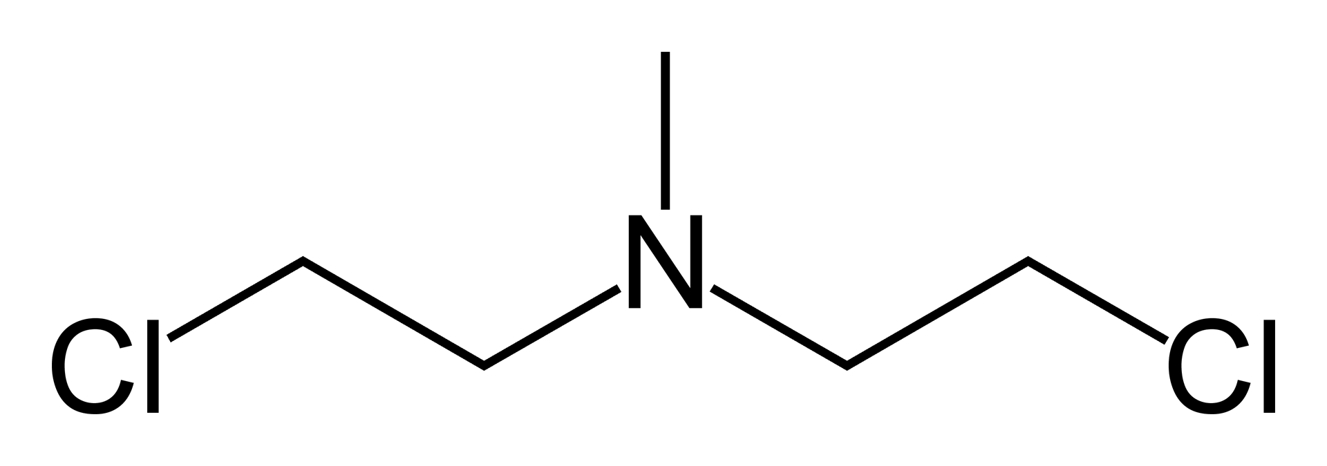 Mechlorethamine